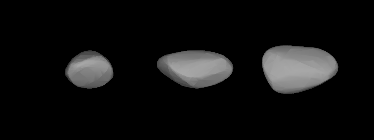 A three-dimensional model of 787 Moskva that was computed using light curve inversion techniques.